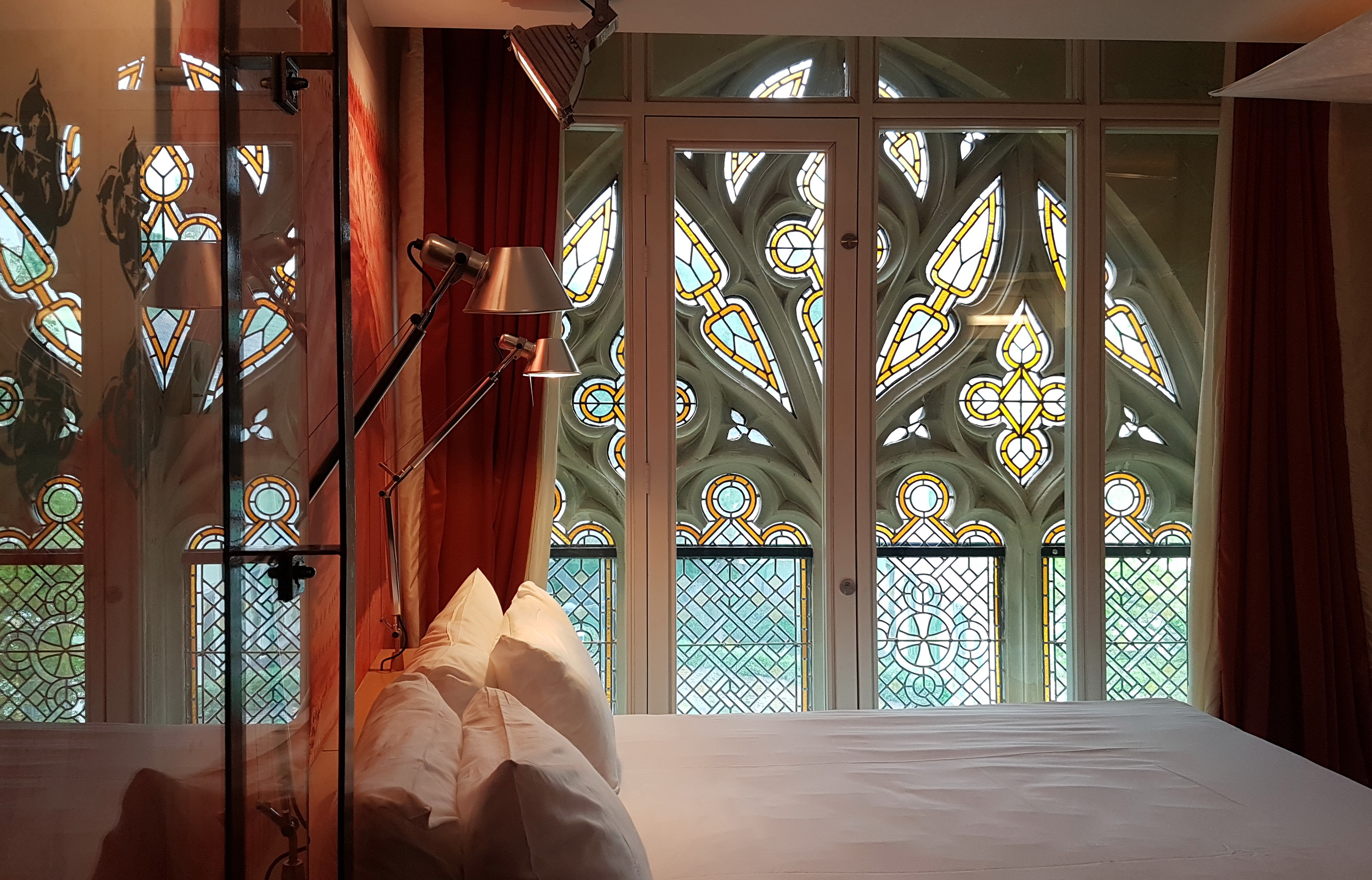 View of a hotel room in Kruisherenhotel in Maastricht, the Netherlands. The Gothic church and monastery of the Croziers (or Crutched Friars) dates from the 15th century and was converted into a luxury hotel (Kruisherenhotel) in 2003-05. Henk Vos designed the hotel interior, including designs from several international designers.